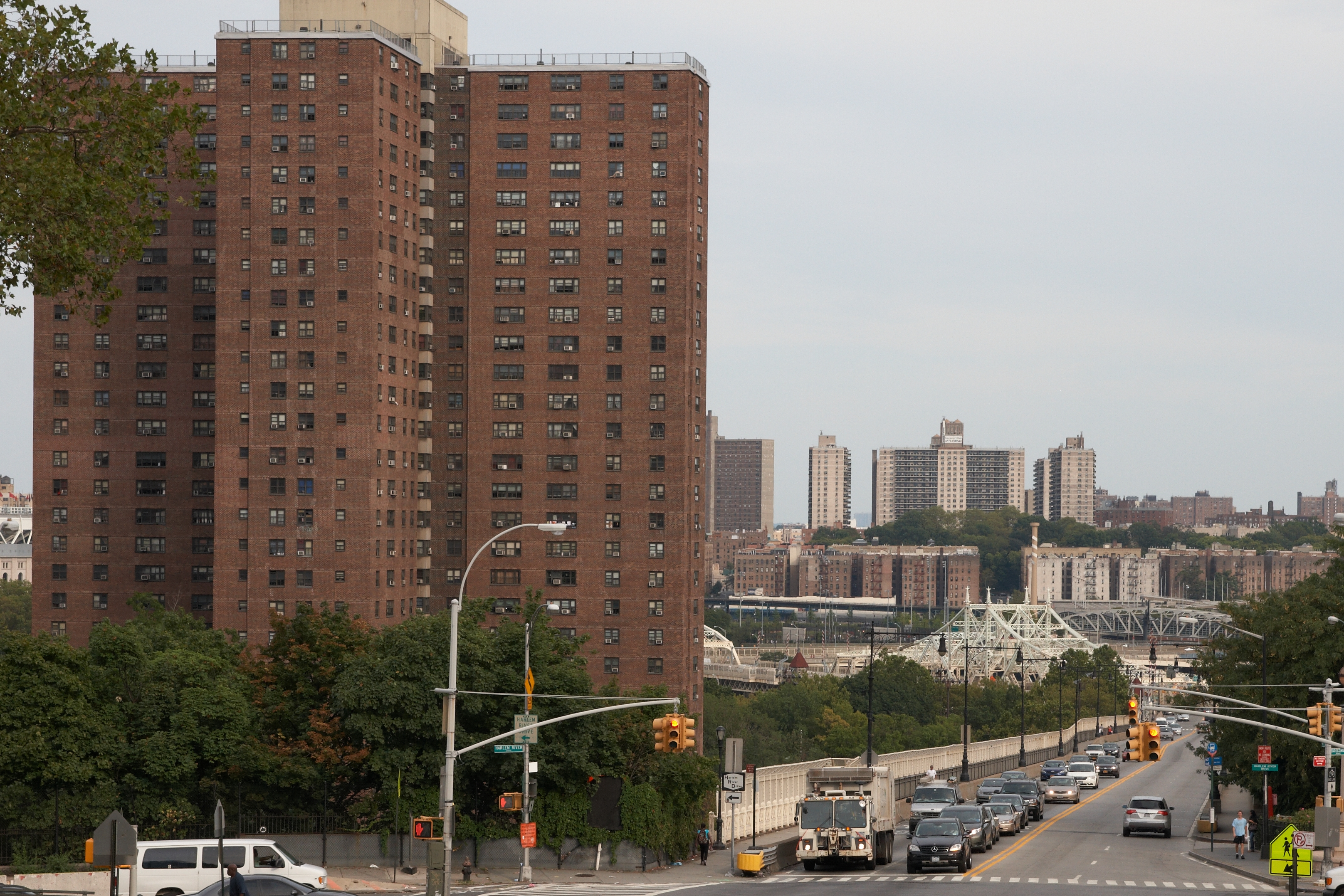 Looking east down West 155th Street in Manhattan, New York City, with one of the Polo Ground Towers in the foreground. The Macombs Dam Bridge and The Bronx can be seen in the background, as well as a small glimpse of Yankee Stadium to the left of the residential tower.